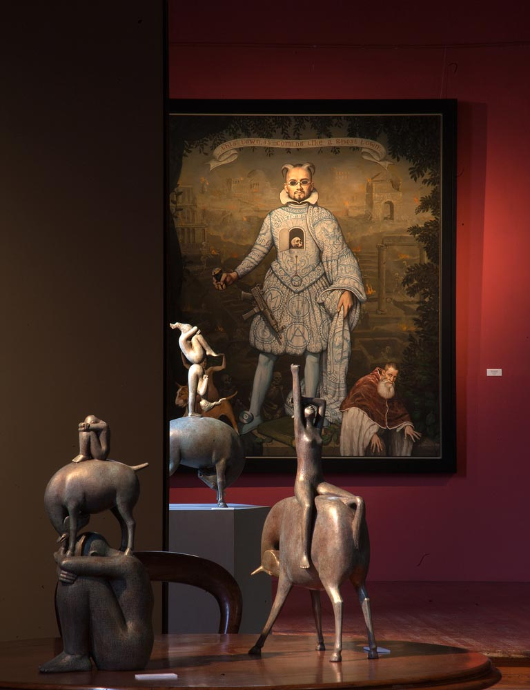 Kilmorack Gallery - July 2015 showing the work of painter Alan MacDonald and Eoghan Bridge